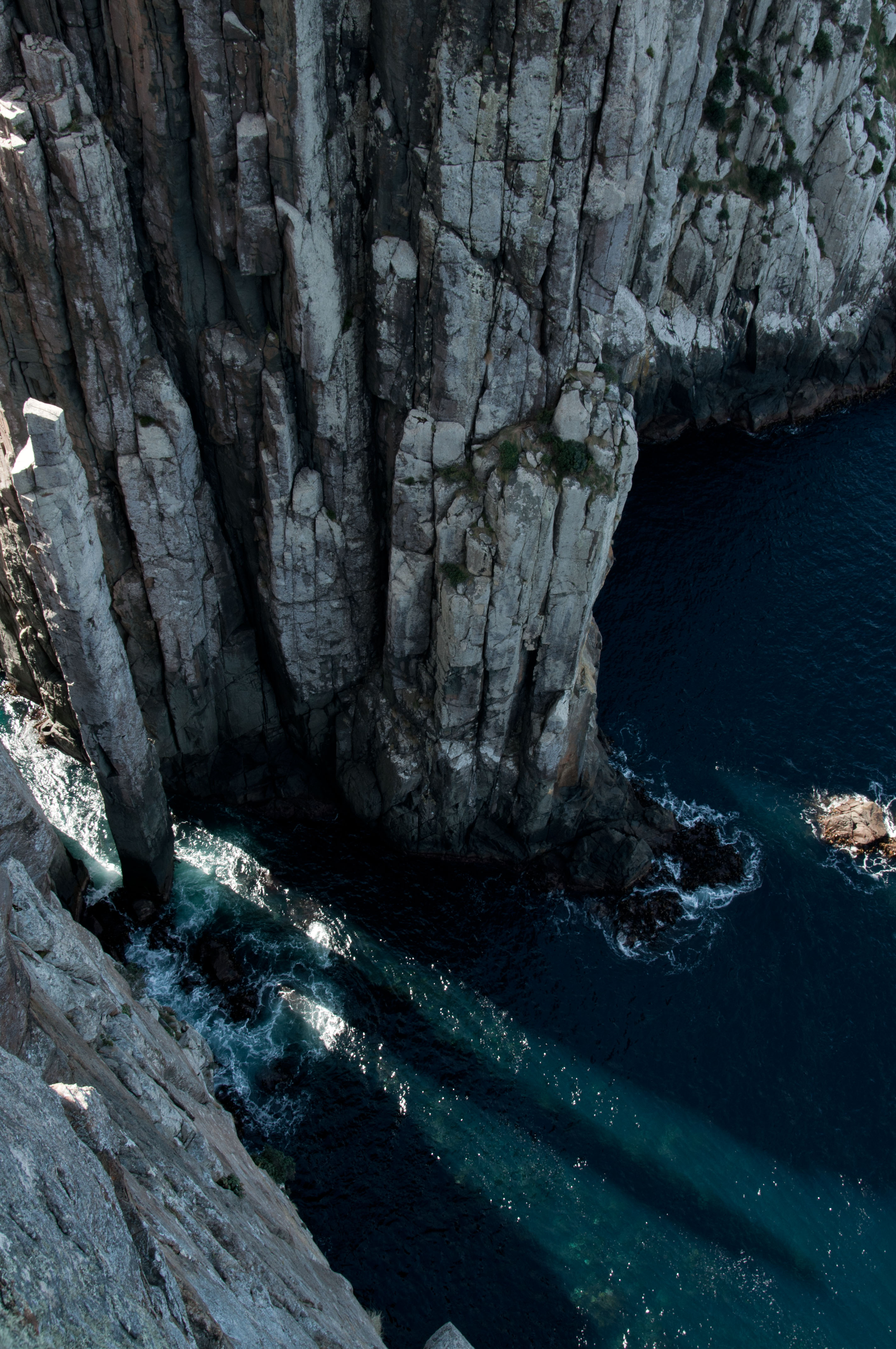 The Totem Pole in Tasman National Park seen from the mainland